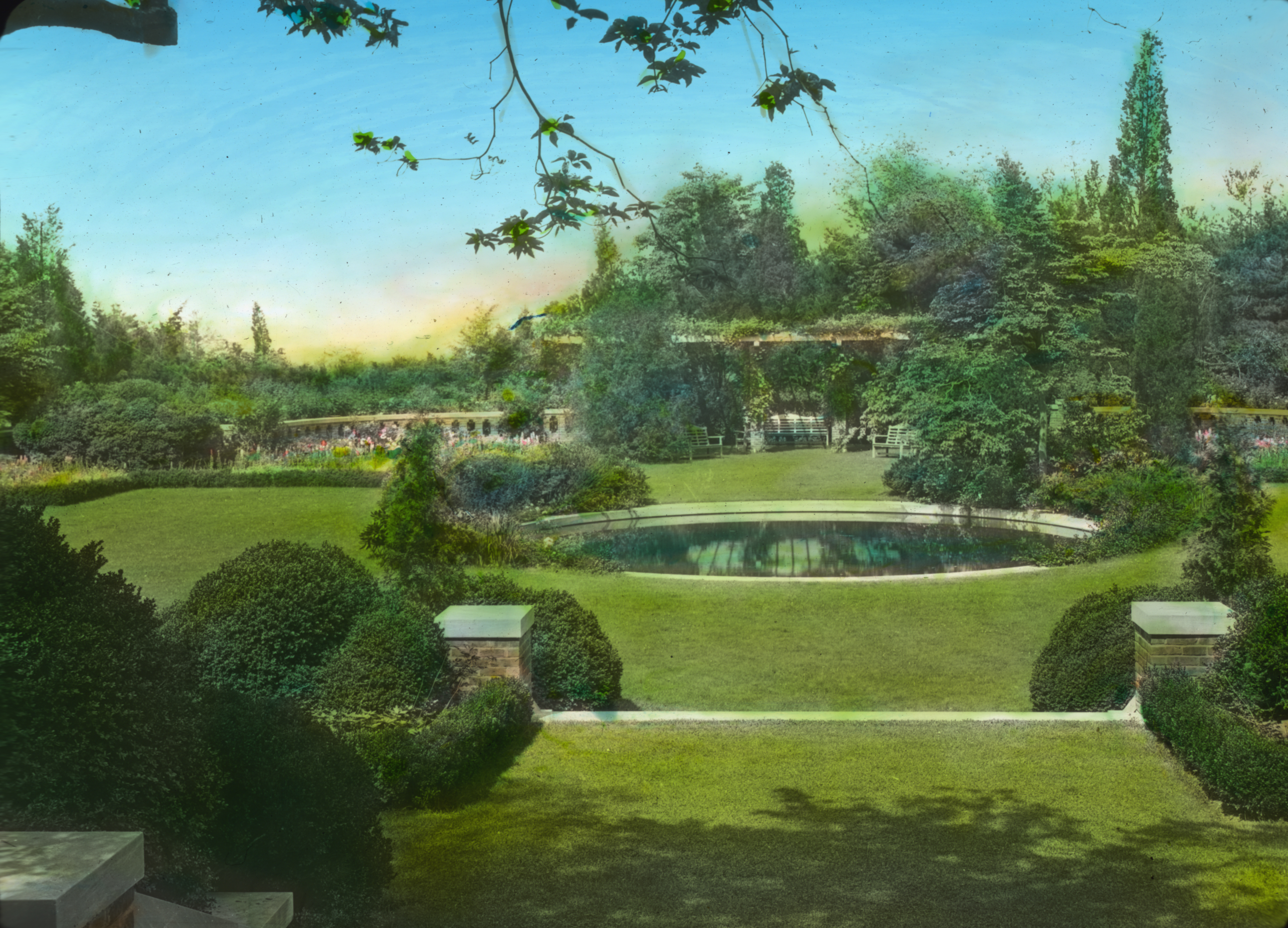 Hand-tinted, 1918 glass slide of the view from the living room toward the sunken garden at "Welwyn", the estate of Harold Irving Pratt estate in Glen Cove, New York, United States. It was designed by James Leal Greenleaf, one of the most noted landscape architects of the day, and is one of seven estates for the Pratt family landscaped by Greenleaf. Originally published as part of Johnston's "House and Garden Lecture" series in 1920.